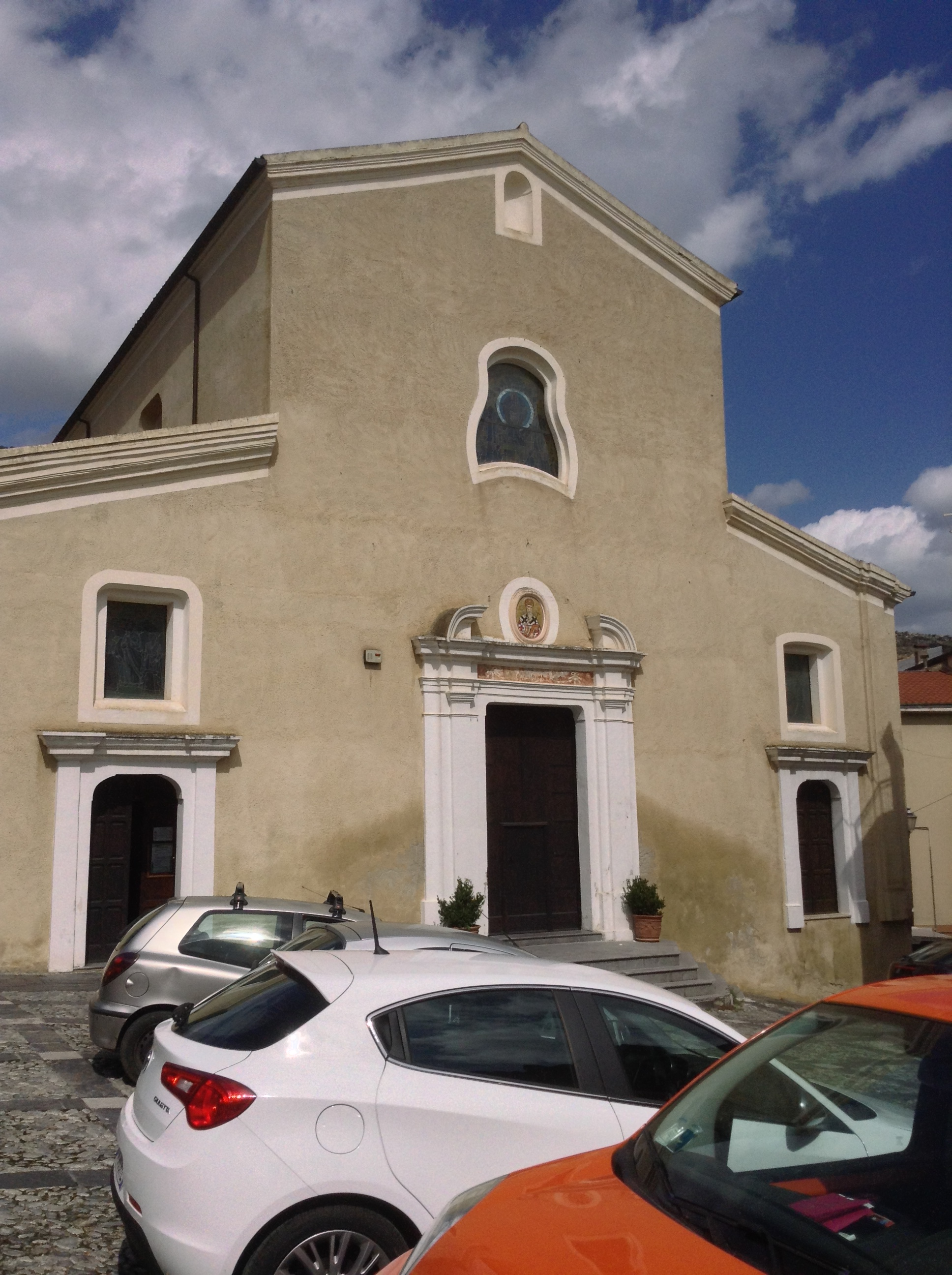 Santa Maria Assunta church